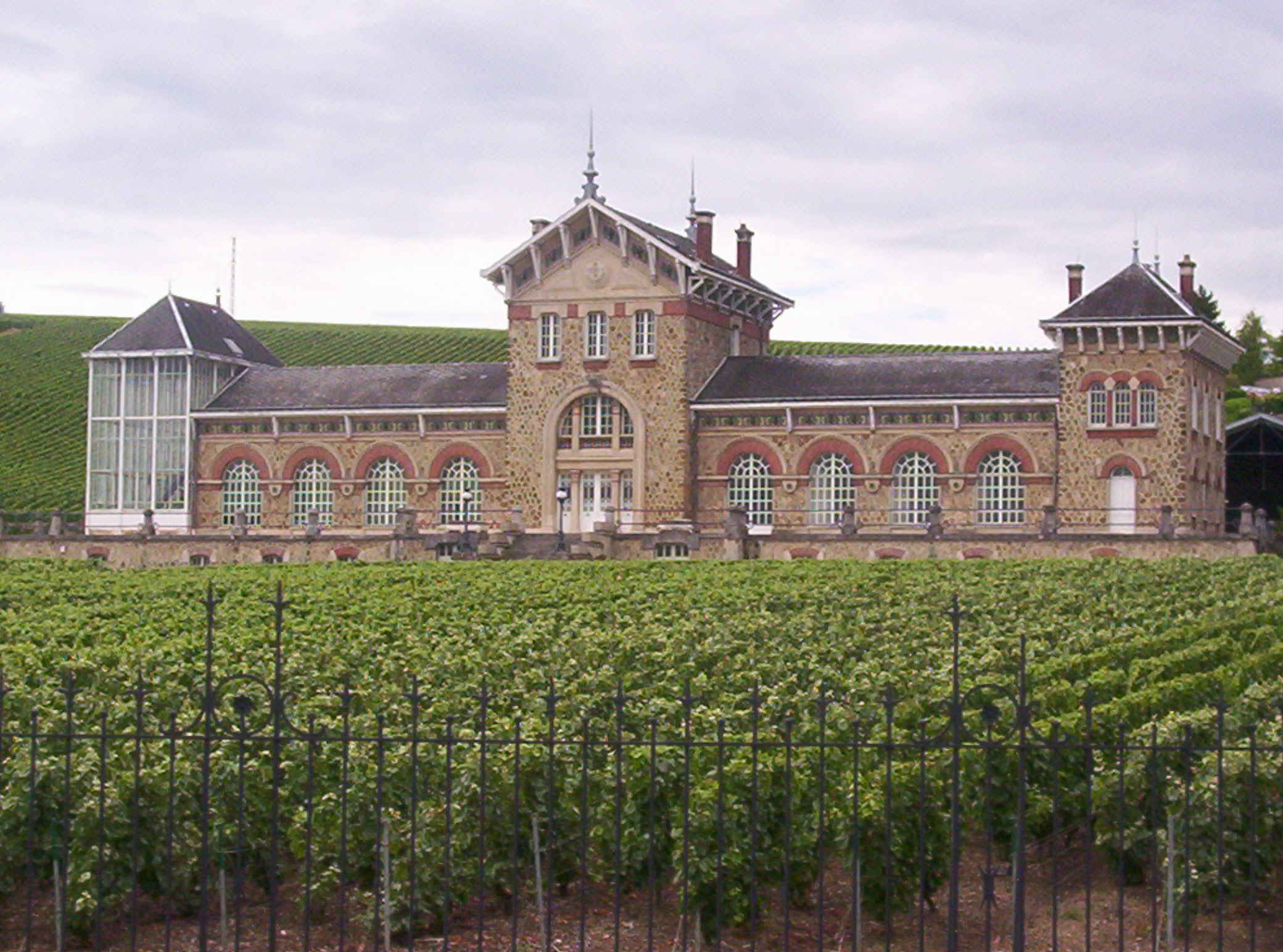 Fort Chabrol - Épernay